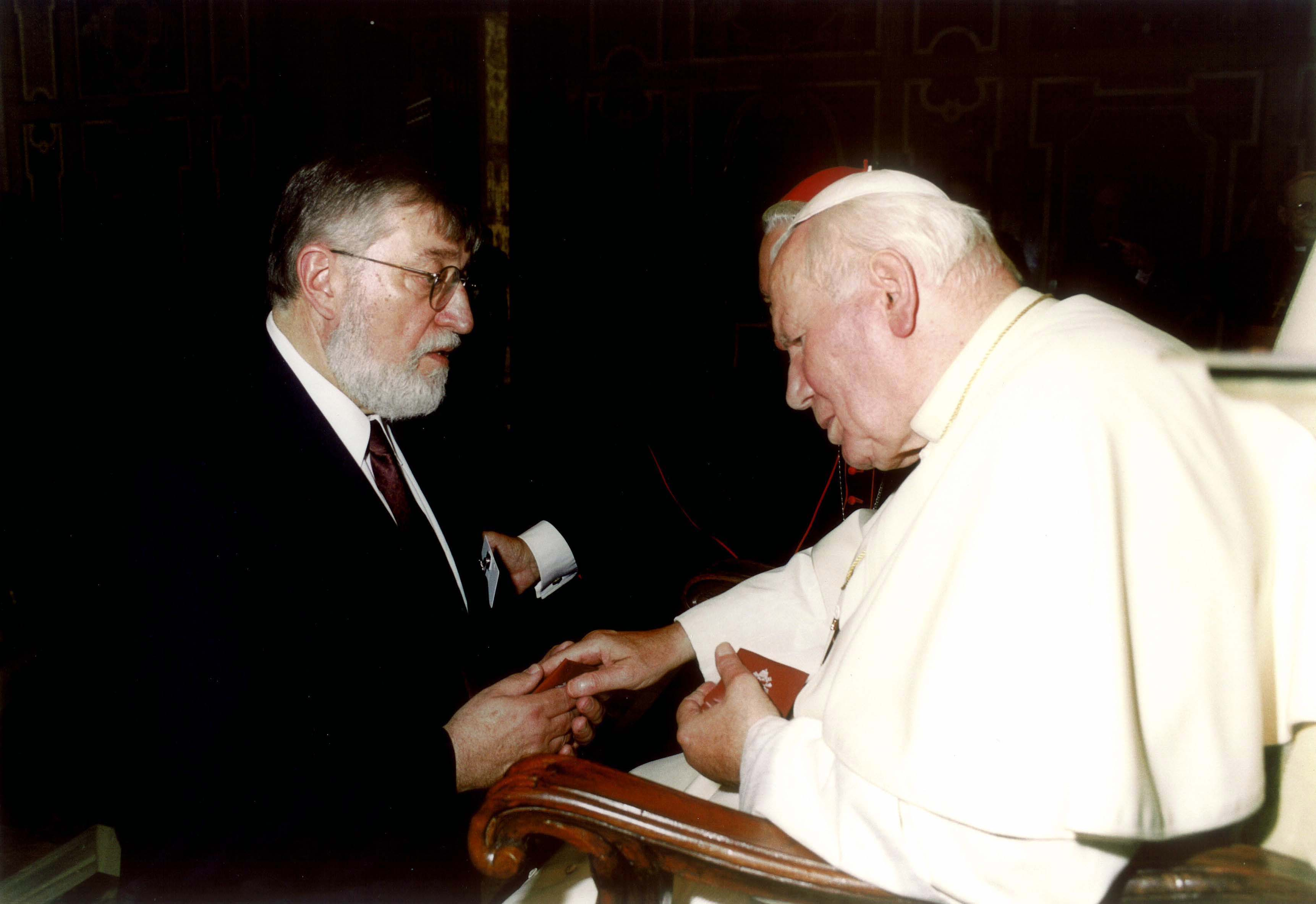 Picture taken while meeting Pope John Paul II at the Vatican.